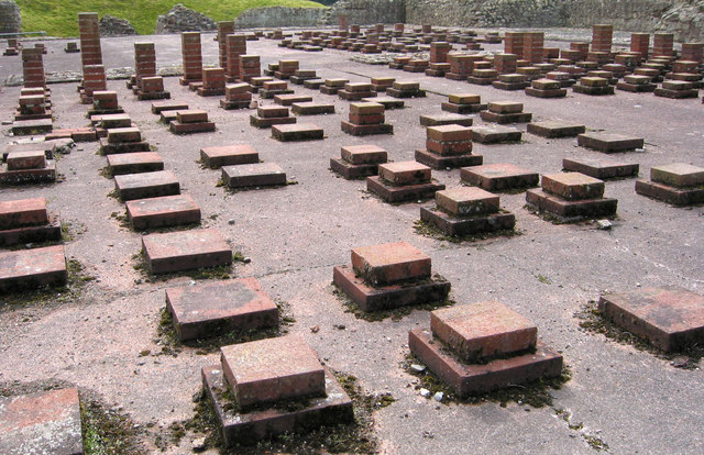 Detail of Roman Hypocaust at Viroconium Cornoviorum